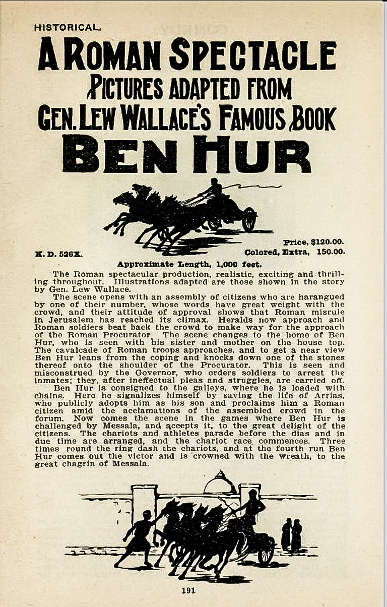 Page in the Revised List of High Class Original Motion Picture Films, a 1908 film-supply catalog sent to potential customers under separate cover by unidentified distributor (United States, 1908), p. 191.